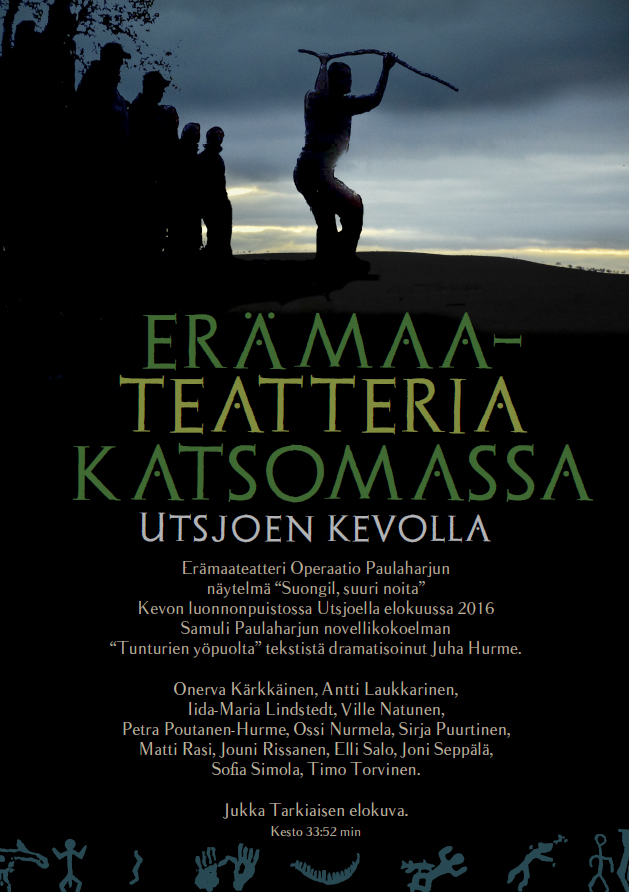 Movie documentary about wilderness theater led by Juha Hurme performing in Utsjoki 2016